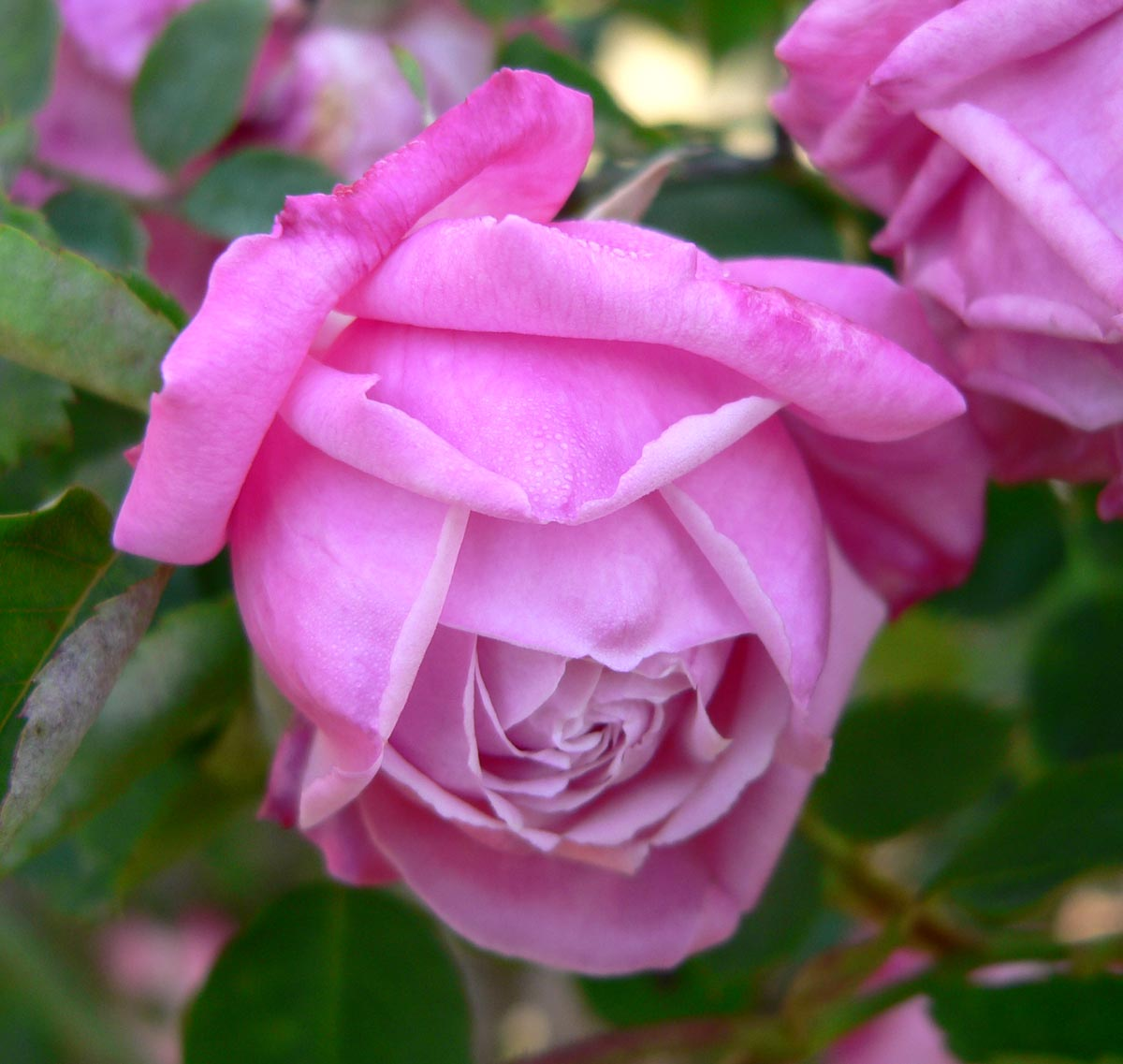 Photo of Rosa 'Maman Cochet' at the San Jose Heritage Rose Garden